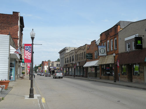 Picture of 5th Avenue, Coraopolis, Pennsylvania, on June 7, 2009.